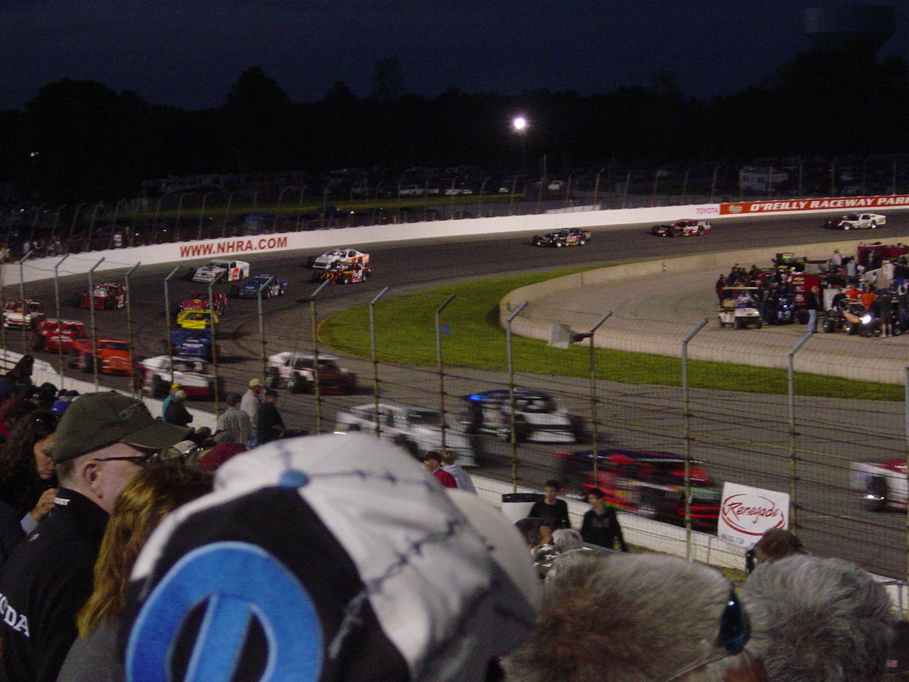 Modified cars racing at O'Reilly Raceway Park.